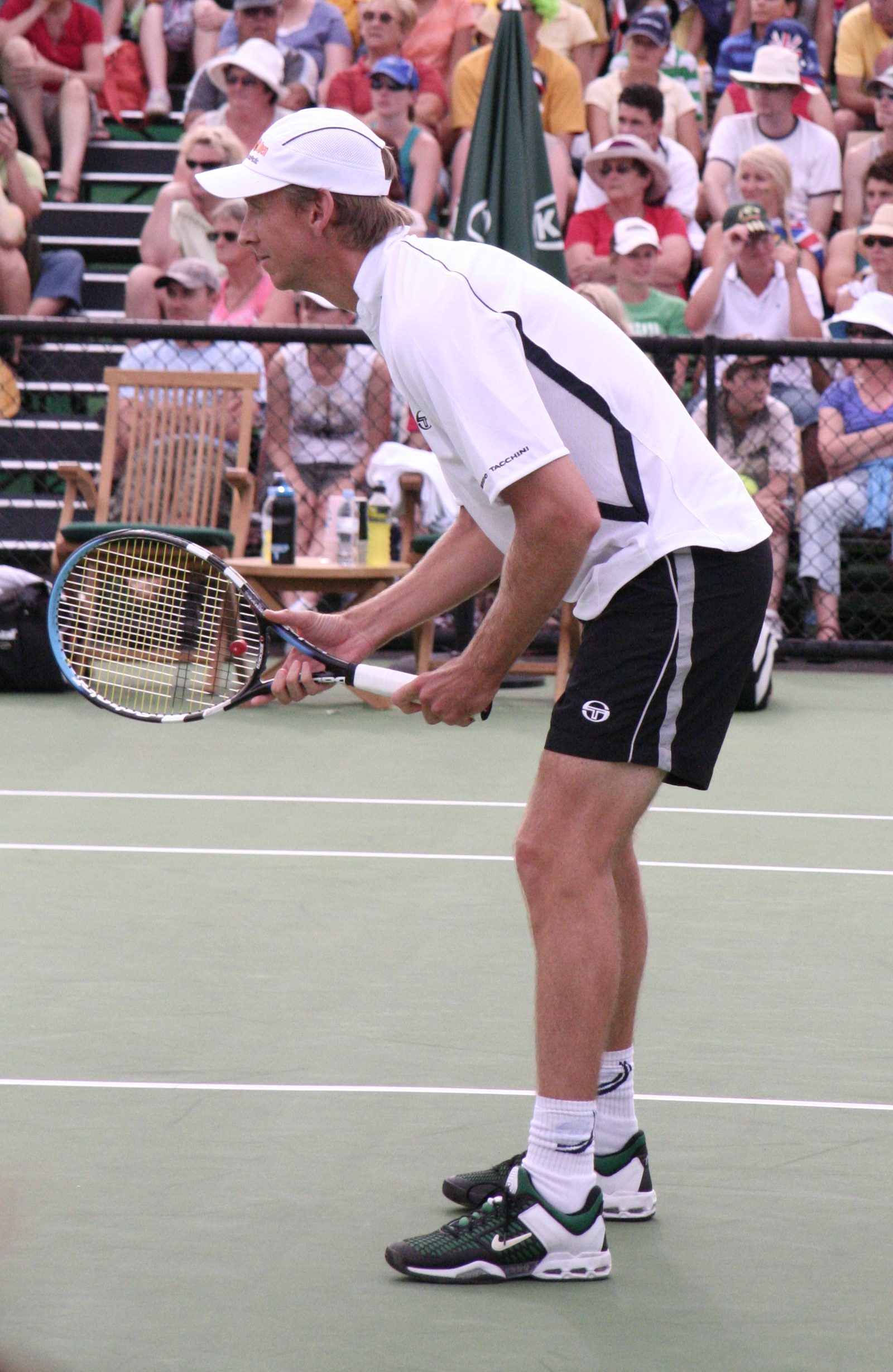 Wayne Arthurs at the 2007 Australian Open, during his first-round mens doubles match, partnering Peter Luczak.